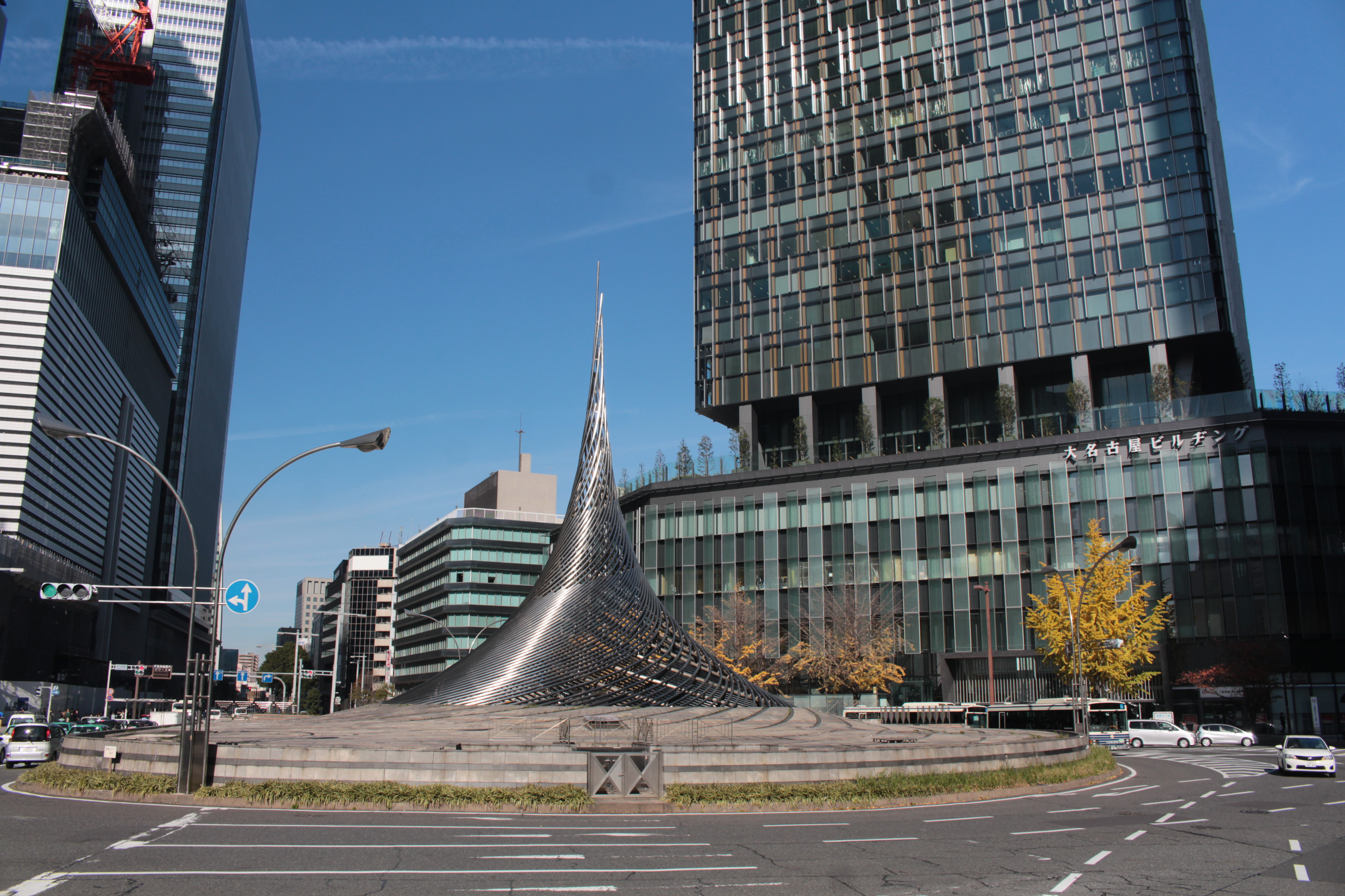 Hishō, a monument in Meieki, Nakamura-ku, Nagoya, Aichi prefecture, Japan.